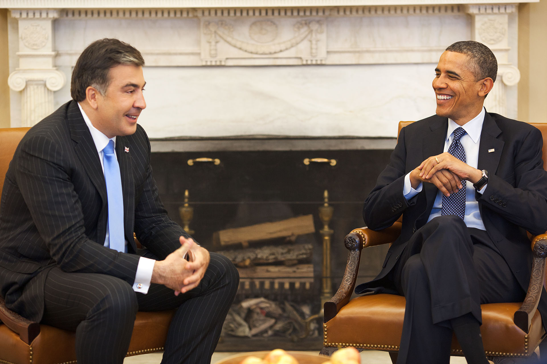 President Barack Obama and President Mikheil Saakashvili of Georgia hold a bilateral meeting in the Oval Office, Jan. 30, 2012. (Official White House Photo by Pete Souza)